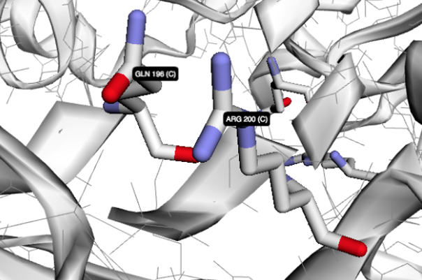 Q196-R200 (PDB ID: 2X1C). Image generated using Proteus (